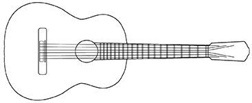 "Spanish" guitar body